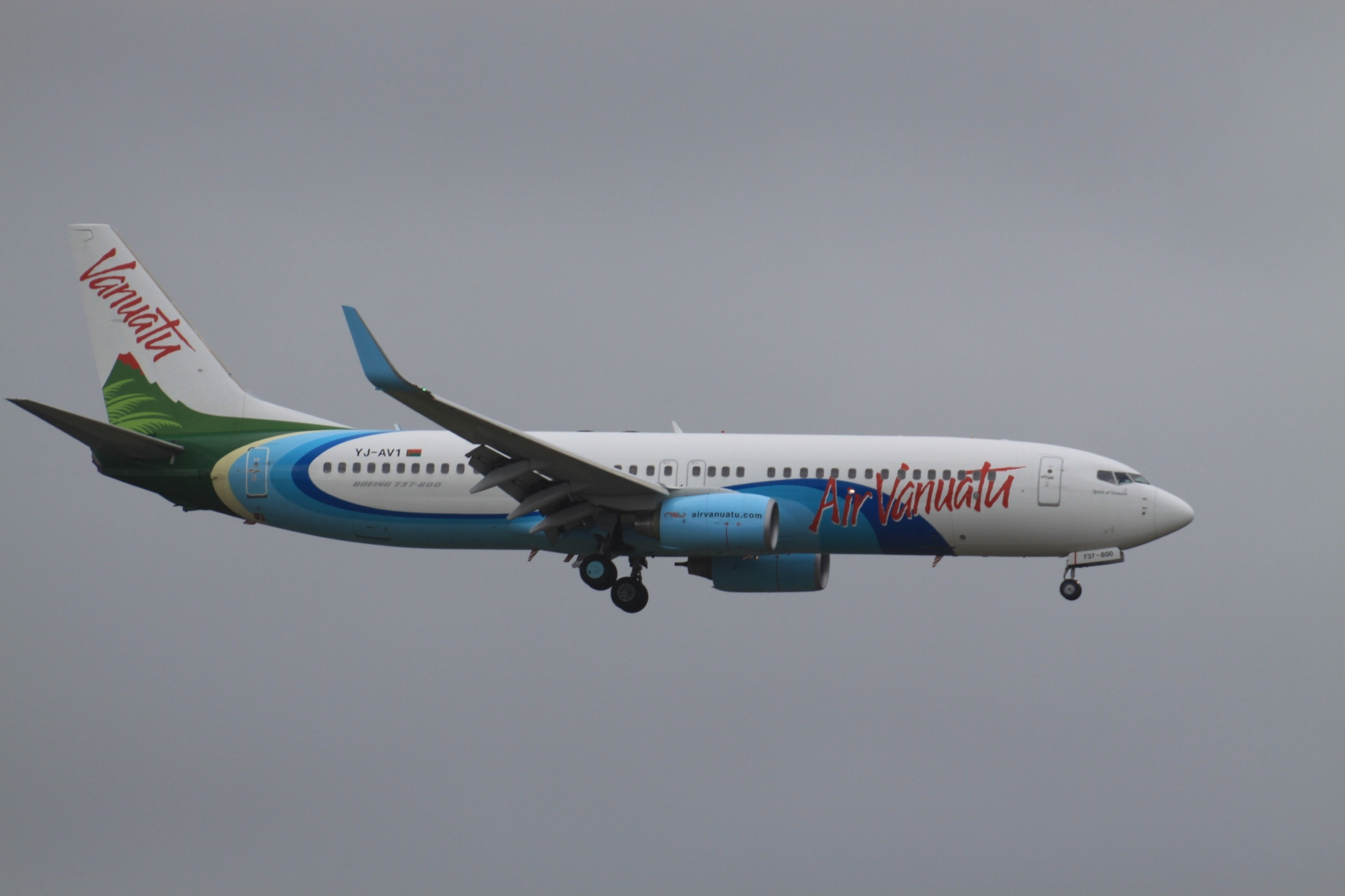 At Sydney Kingsford Smith